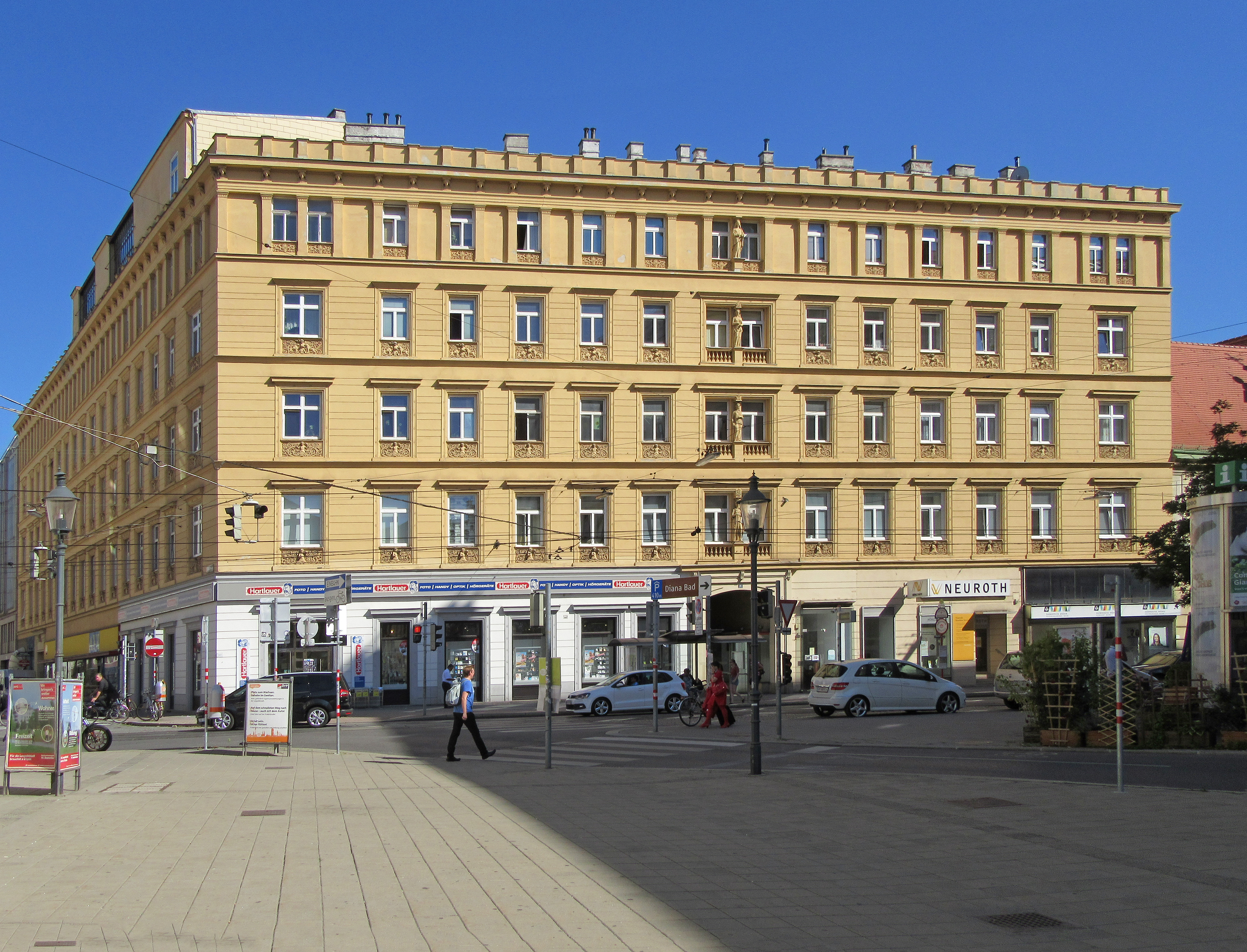 Residential building Taborstrasse 18 / Schmelzgasse 2 (formerly Hotel National), 1020 Vienna. Architects: Ludwig Förster and Theophil Hansen